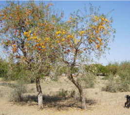 Rojida Flower : (Tecomella Undulata)In 1981 it was declared the state flower.